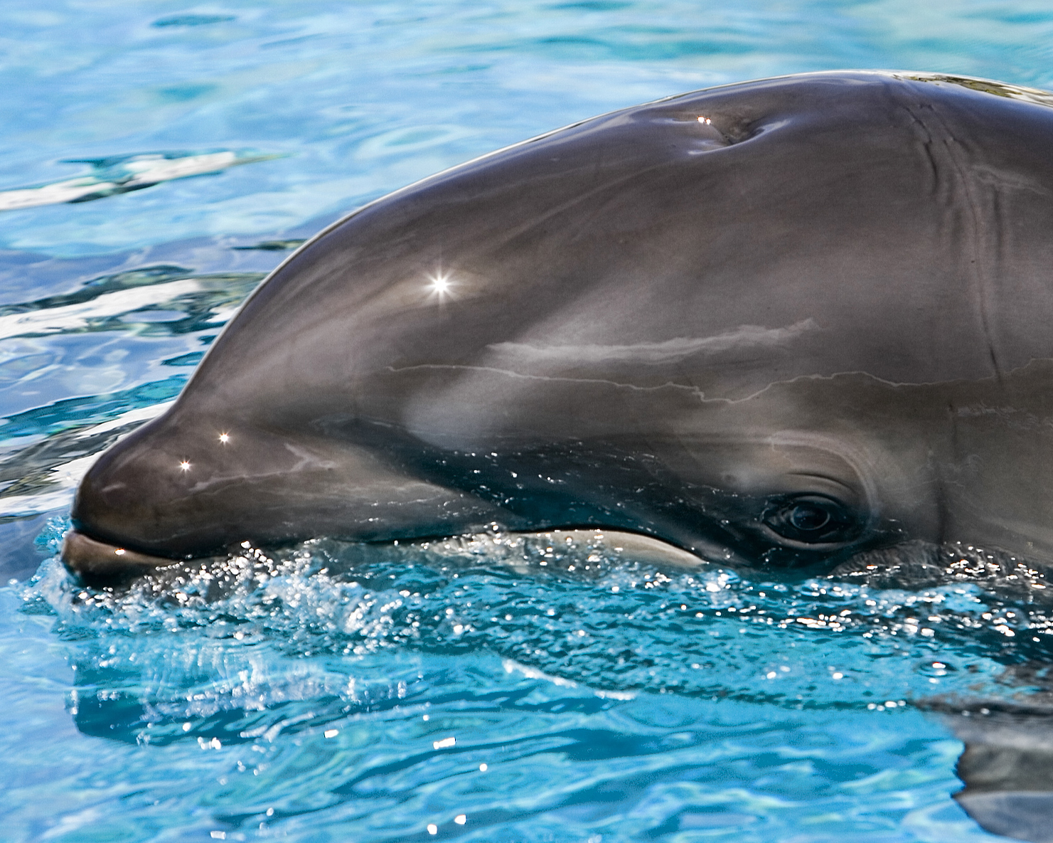 Second-generation wolphin female "Kawili Kai" (*23 December 2004) at Sea Life Park Hawaii, 9 months old. Offspring of first-generation wolphin female "Kekaimalu" (parents: "Tanui Hahai" Pseudorca crassidens ♂ x "Punahele" Tursiops truncatus ♀) and a male bottlenose dolphin (Tursiops truncatus). Read more on flickr.